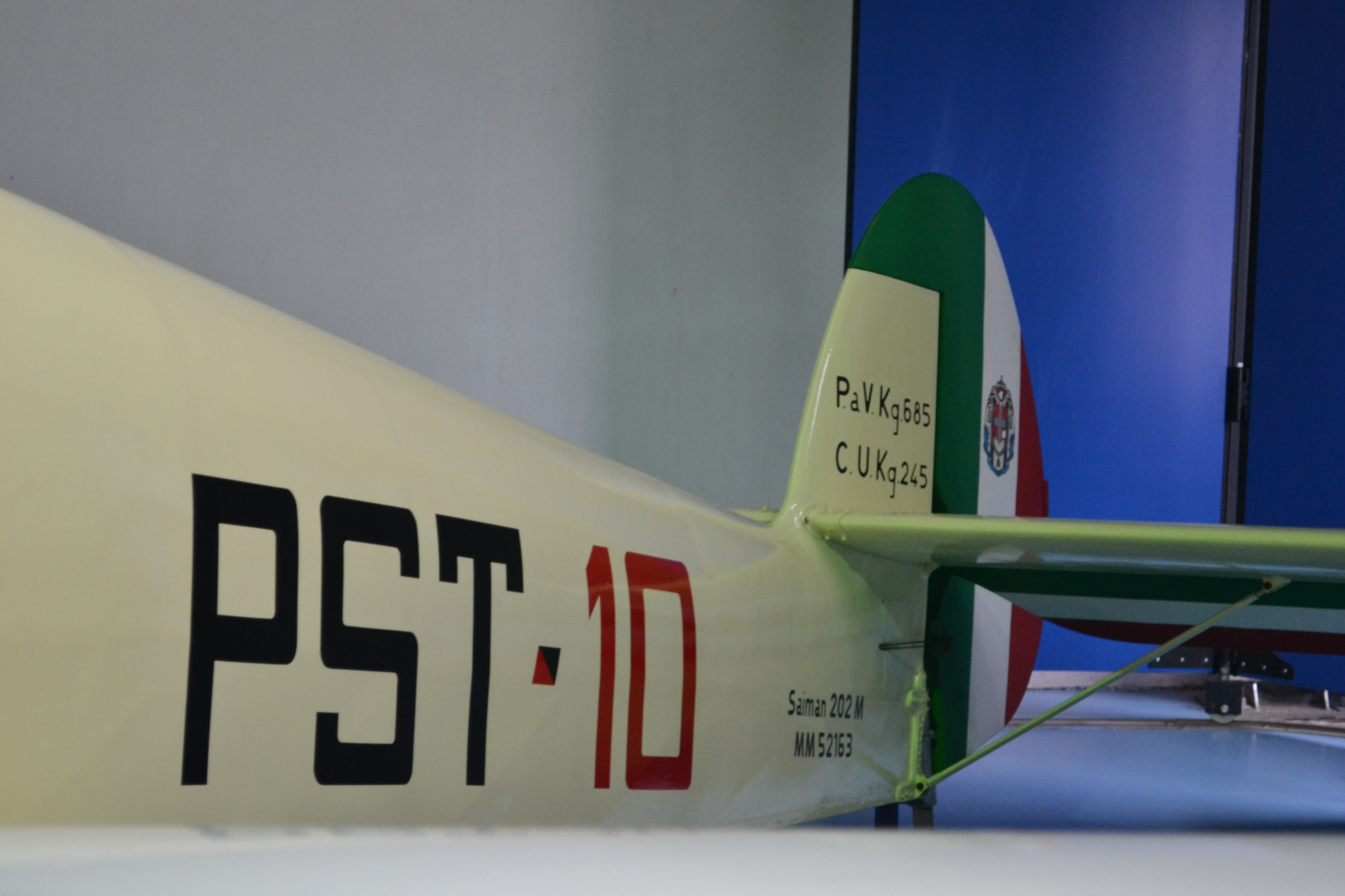 Rear fuselage and tail of the Saiman 202M on display at the Gianni Caproni Museum of Aeronautics (MM. 52163, later I-BIOL).